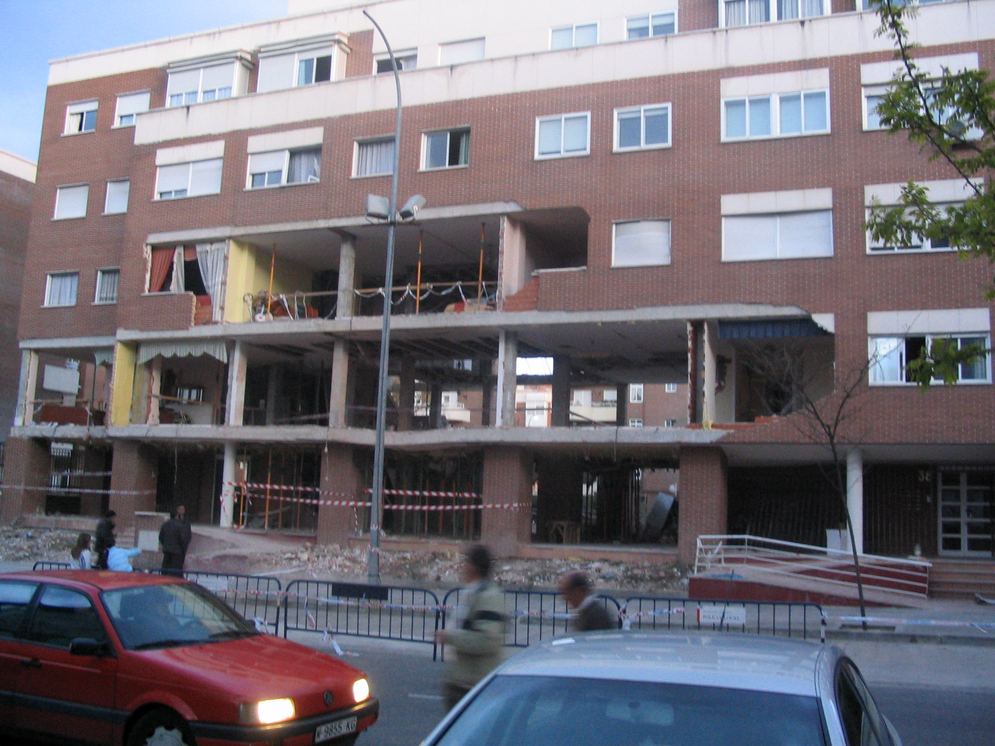 Damage at the building in Leganes where the 2004 Madrid train bombings terrorists committed suicide